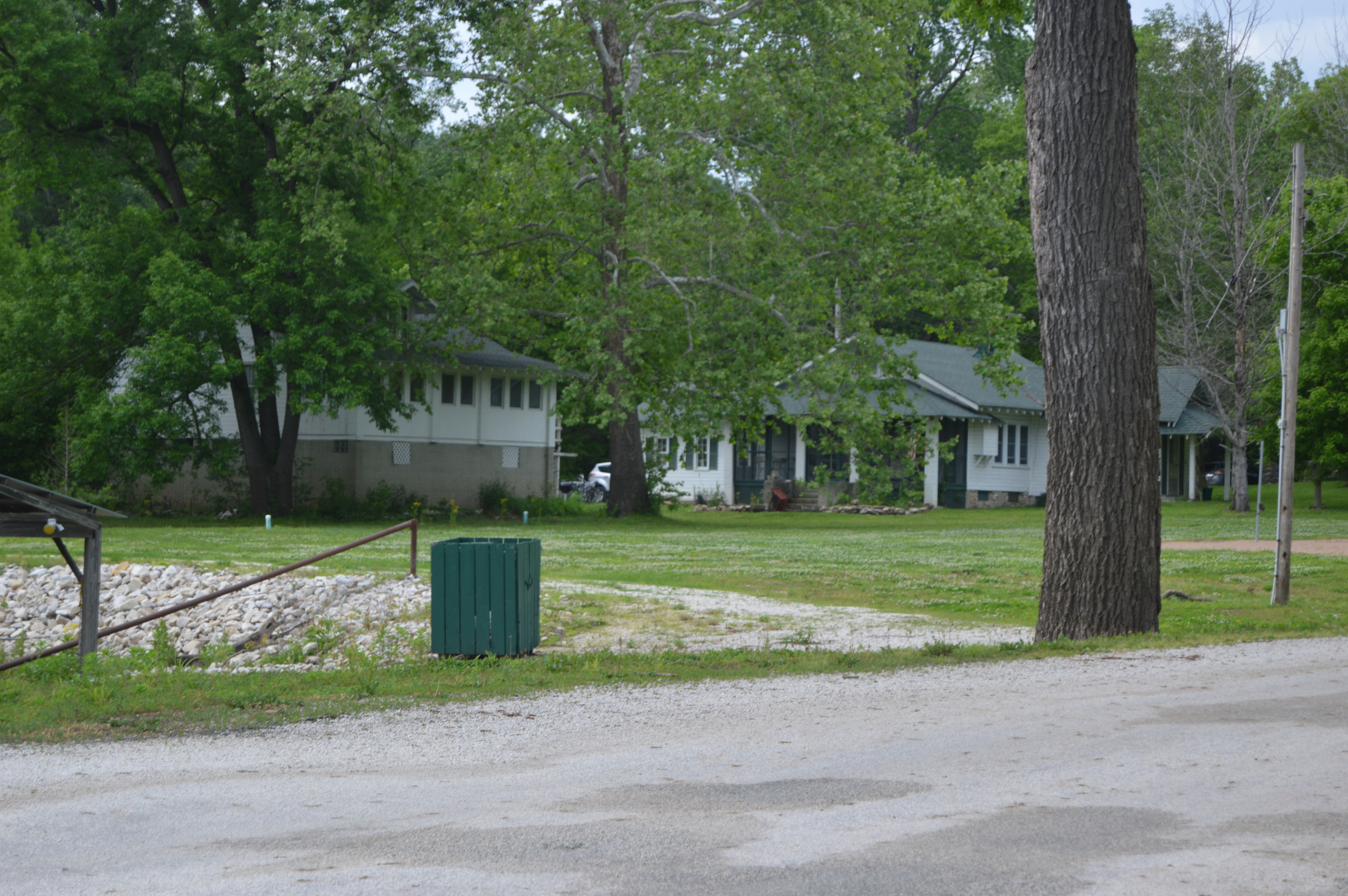 Houses at the New Piasa Chautauqua, located along (Illinois Route 100) east of Grafton in Quarry Township, Jersey County, Illinois, United States. The Chautauqua has been designated a historic district and is listed on the National Register of Historic Places.